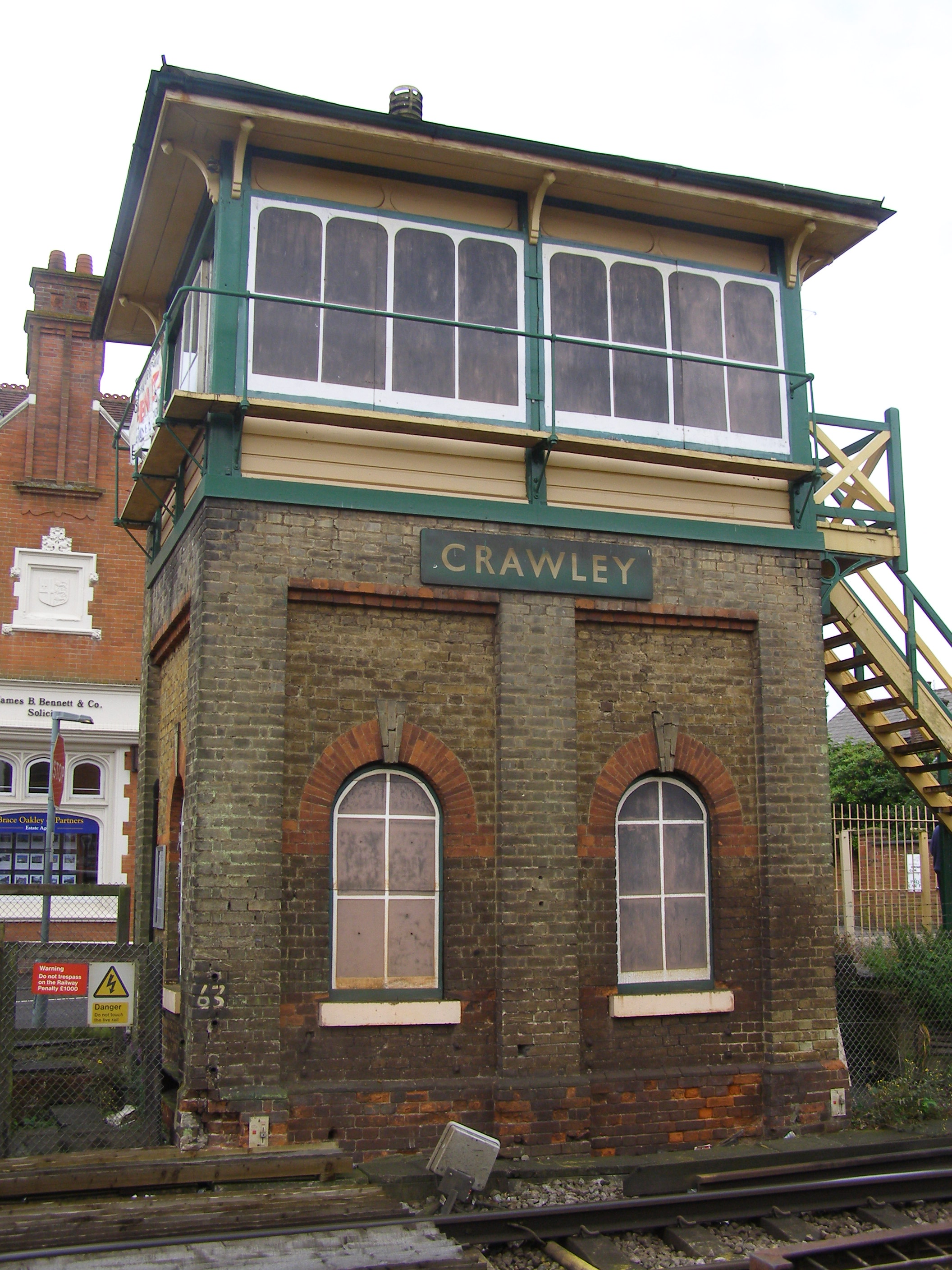 Crawley Signal Box - at Crawley, West Sussex, England - built in 1870s now a Grade II listed building and preserved by the Crawley Signal Box Society